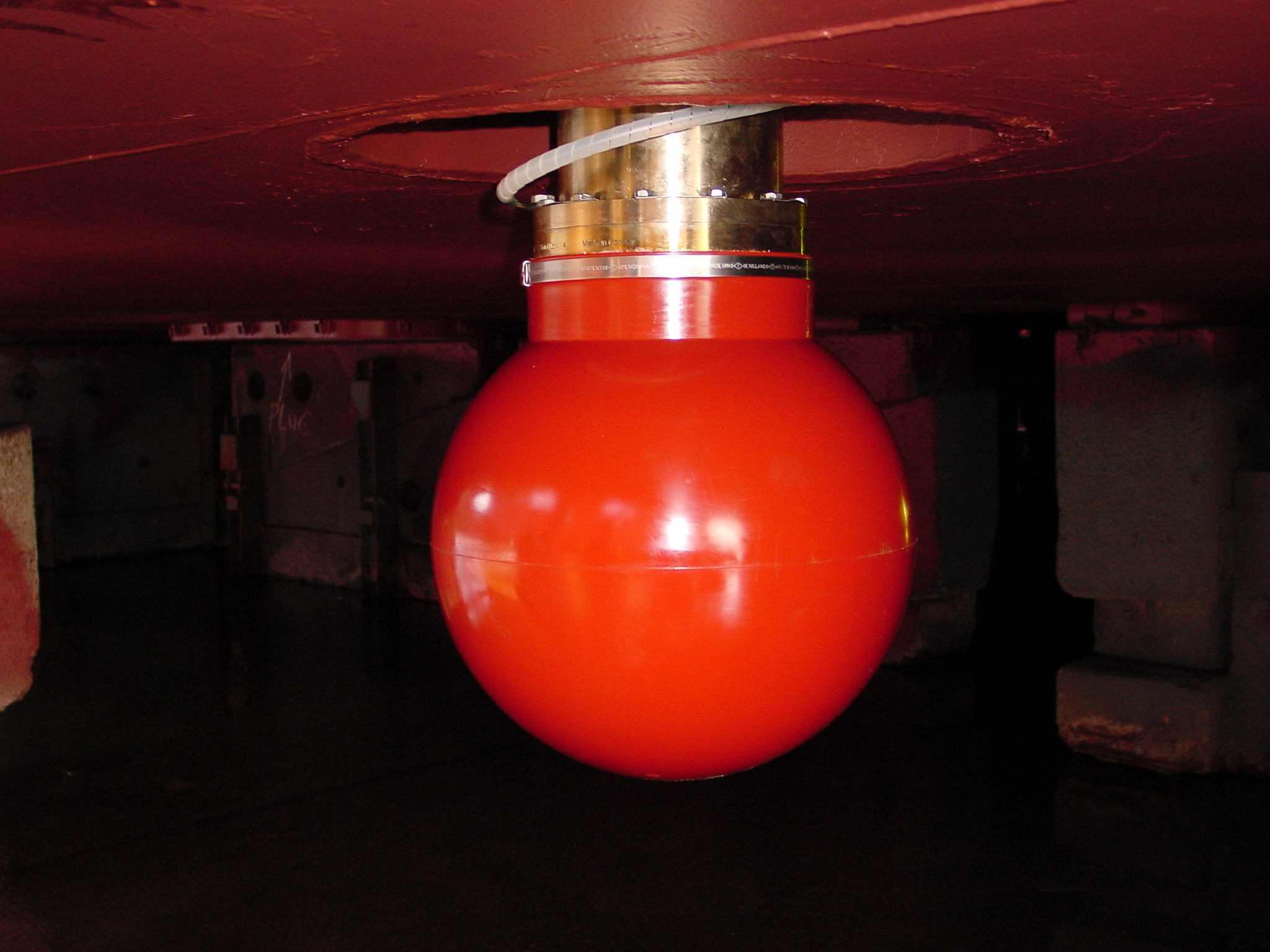 Transducer of an acoustic underwater positioning and navigation system (Brand name: HiPAP HPR)